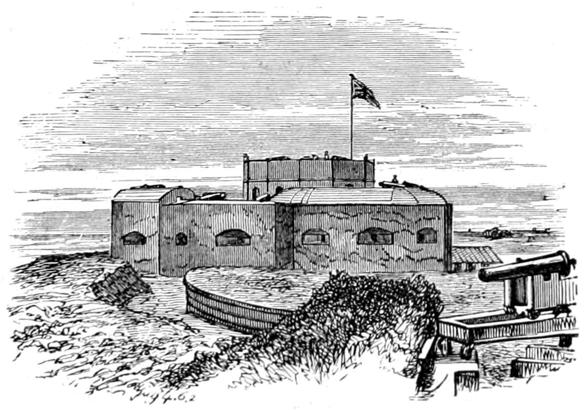 "Hurst Castle". Engraving from page 157 of The New Forest: Its history and its scenery by John R. Wise. Printed by Smith, Elder and Co., London, 1863. Picture was drawn by Walter Crane and engraved by W. J. Linton, probably in 1862.